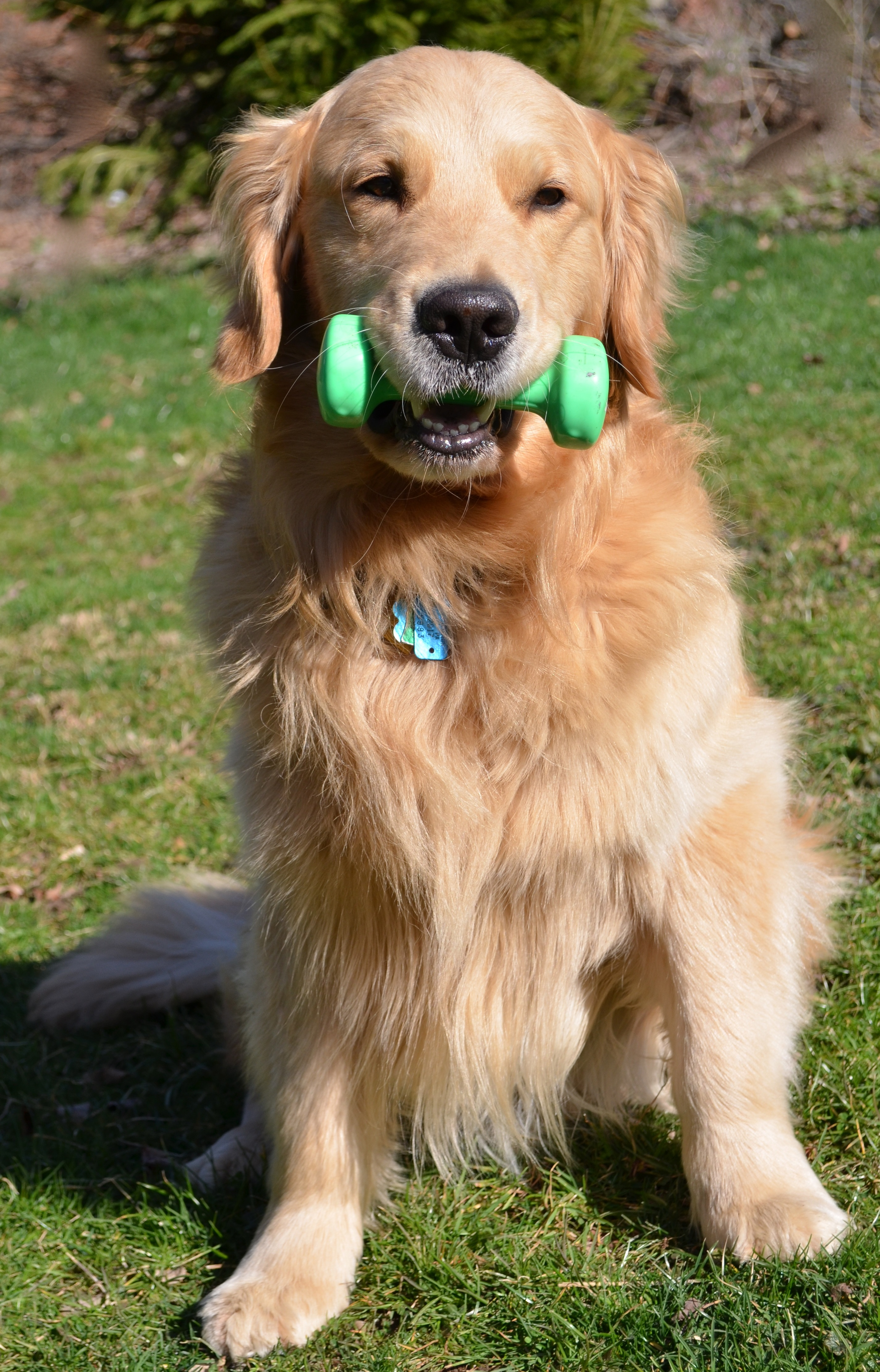 sitting dog with dumbbell.